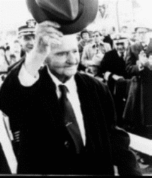 U.S. Congressman Carl Vinson during inauguration ceremony of aircraft carrier "USS Carl Vinson (CVN-70)".